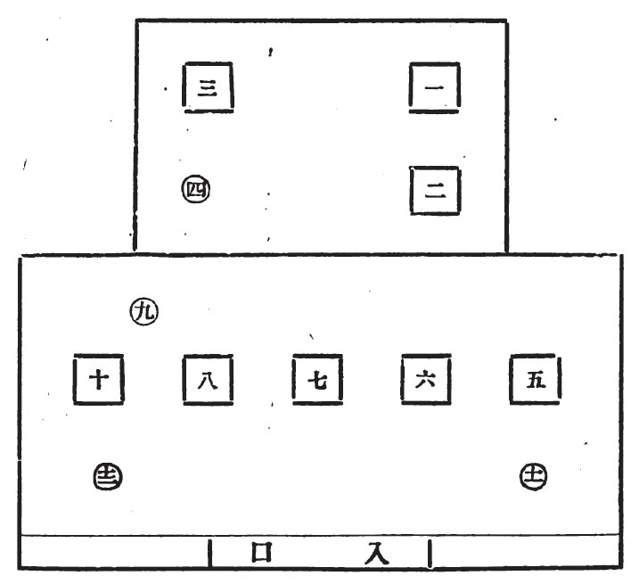 Inside of Unisi-baka